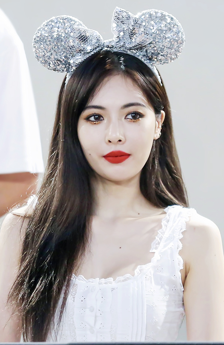 Hyuna at a fansigning event on July 22, 2018.